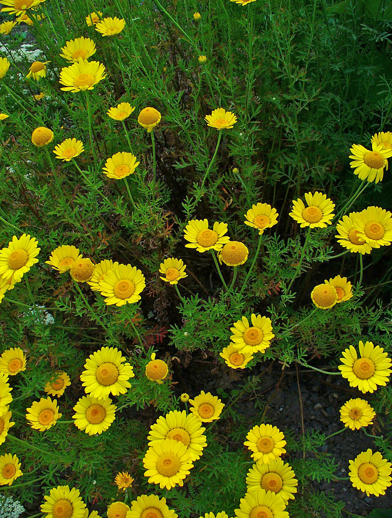 Anthemis tinctoria, Asteraceae, Golden Marguerite, Yellow Chamomile, habitus; Botanical Garden KIT, Karlsruhe, Germany.